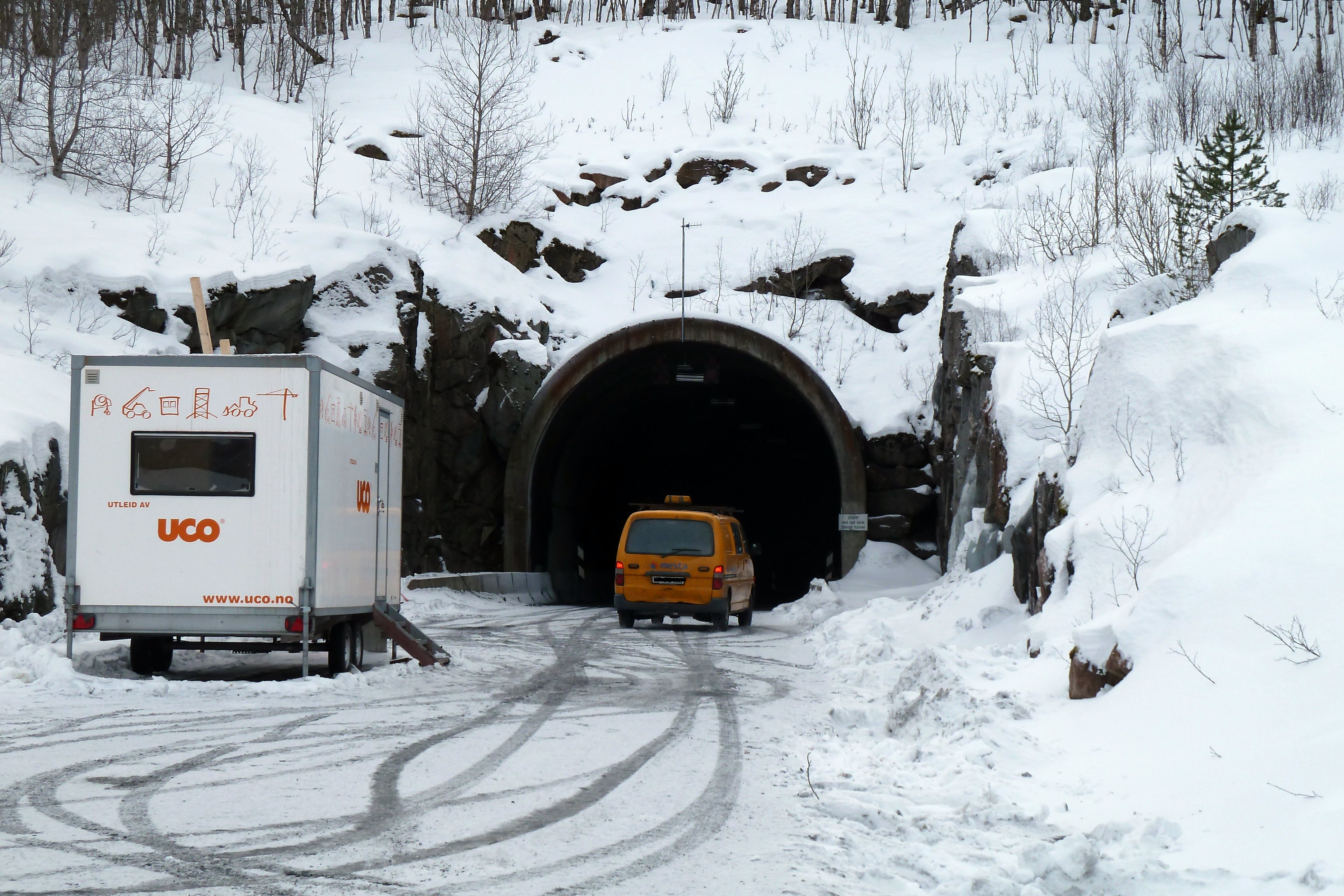 A closed Norwegian road tunnel (Brattlitunnelen) at County Road 827 (Nordland) in february 2013. A service car from the Road Department is about to drive into the tunnel. Near the other end of the 3.6 km long tunnel a truck carrying cheese caught fire in january 2013. The fire made it necessary to keep the tunnel closed for over a month until repair works had been finished.